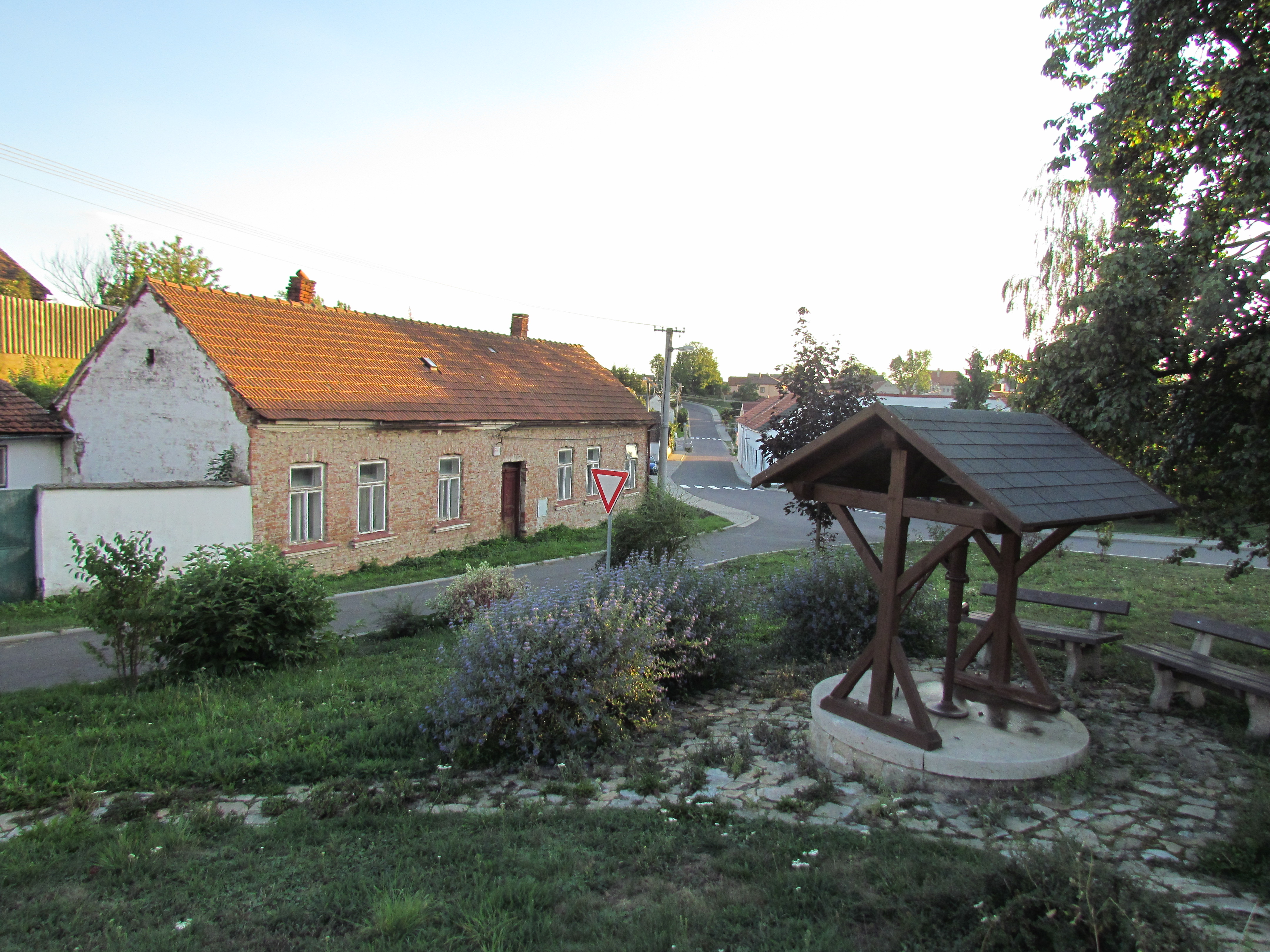 Park in Častohostice, Třebíč District.